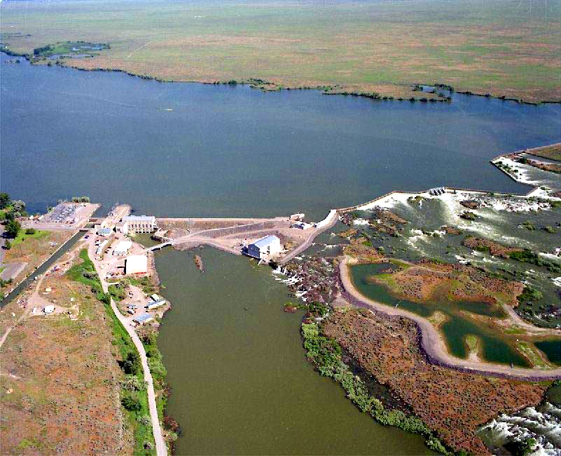 Minidoka Dam on the Snake River Lake Walcott in south central Idaho United States Bureau of Reclamation photo United States Bureau of Reclamation Dams, projects, and powerplants: Minidoka